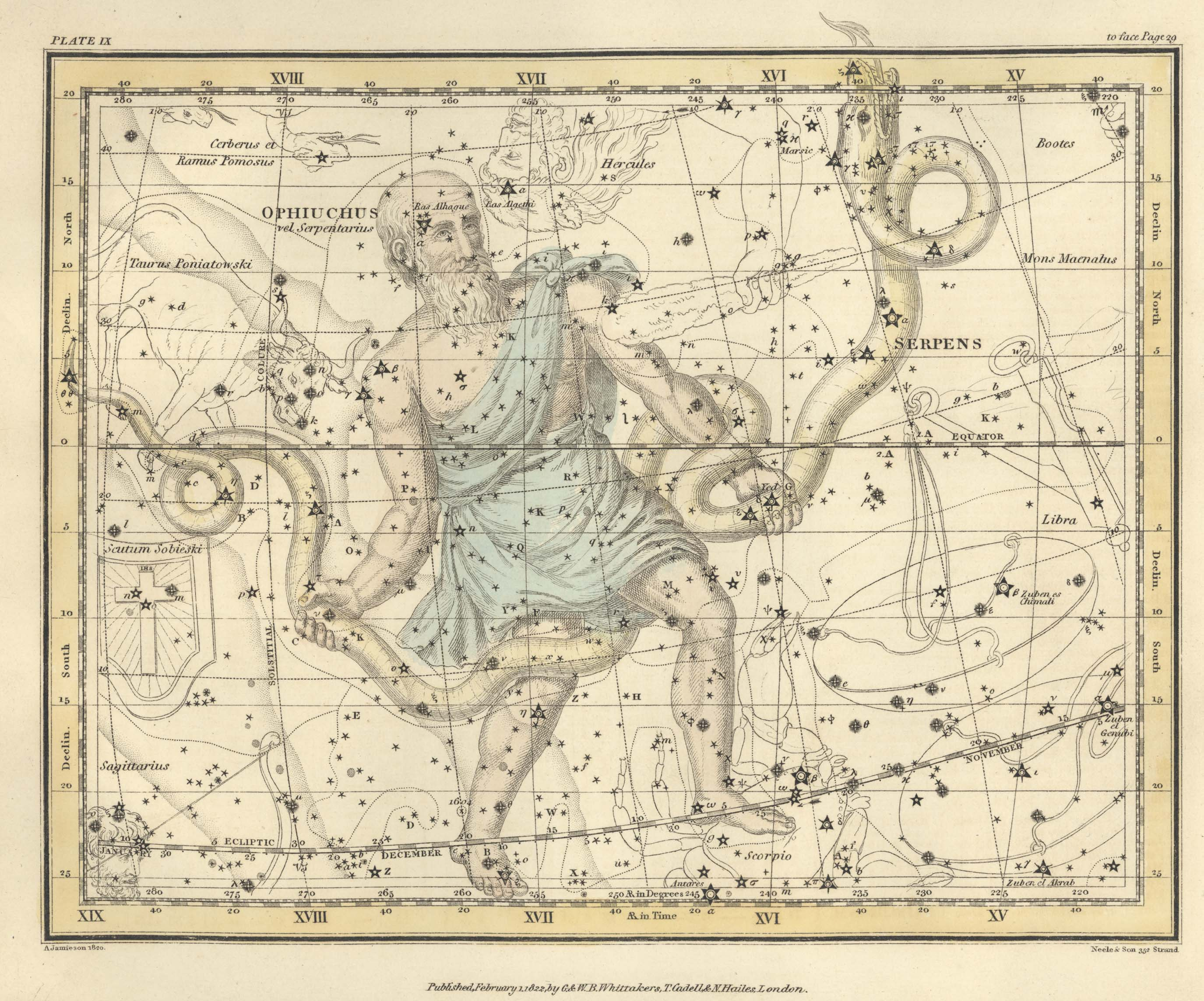 Plate 9 from A celestial atlas comprising a systematic display of the heavens in a series of thirty maps illustrated by scientific description of their contents and accompanied by catalogues of the stars and astronomical exercises